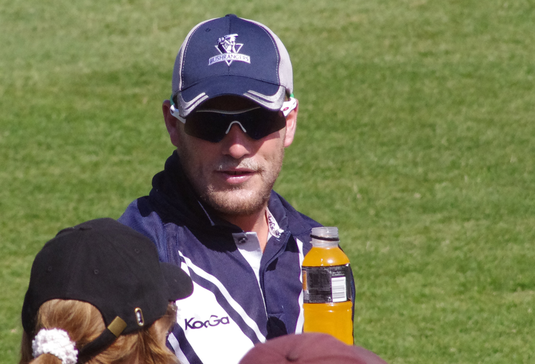 Aaron finch